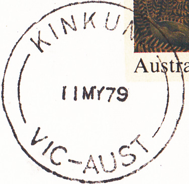 used on the final day of operation of the post office in Blackburn South, Victoria, Australia